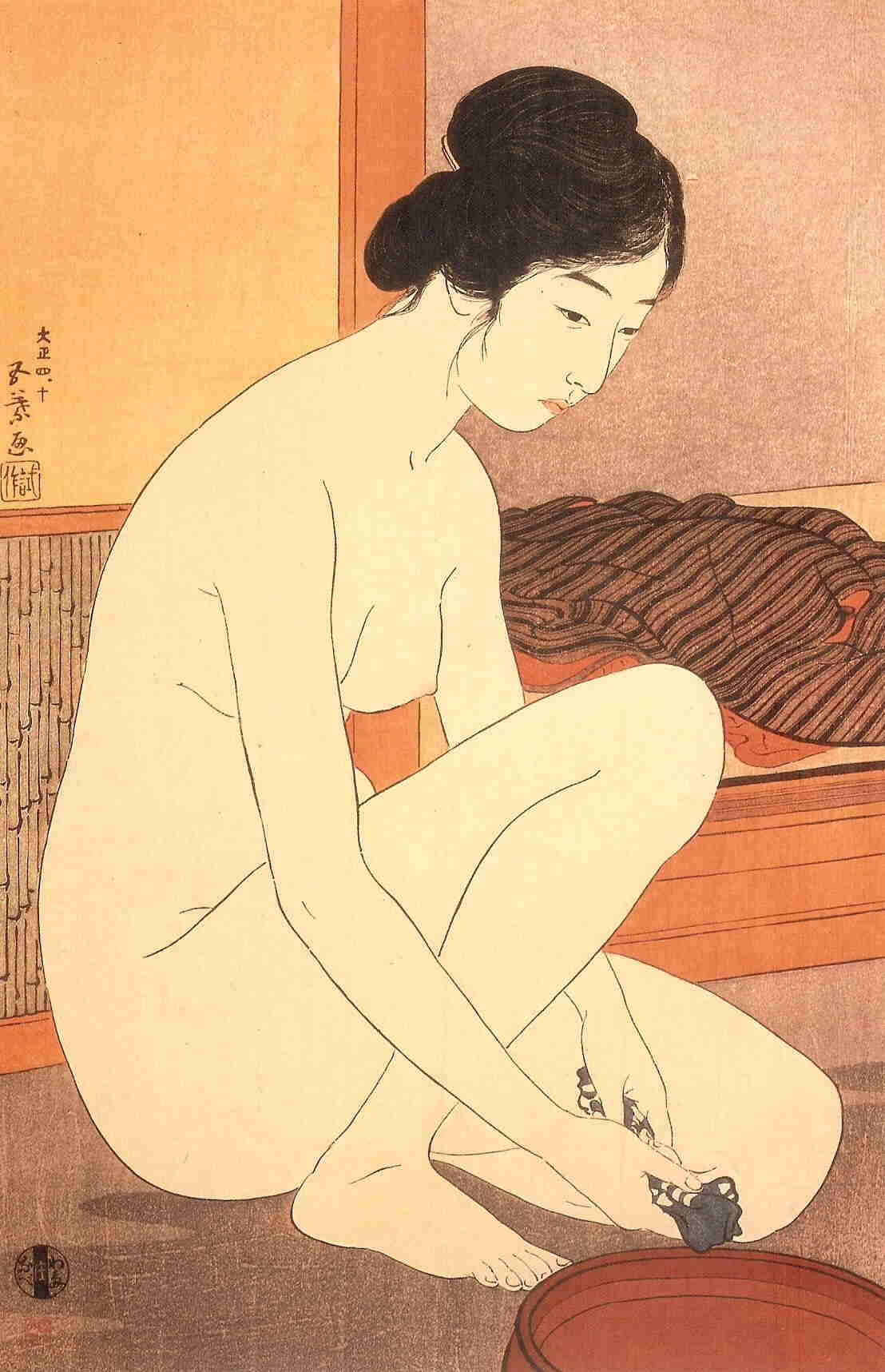 Hashiguchi Goyô Woodcut "Yuami"